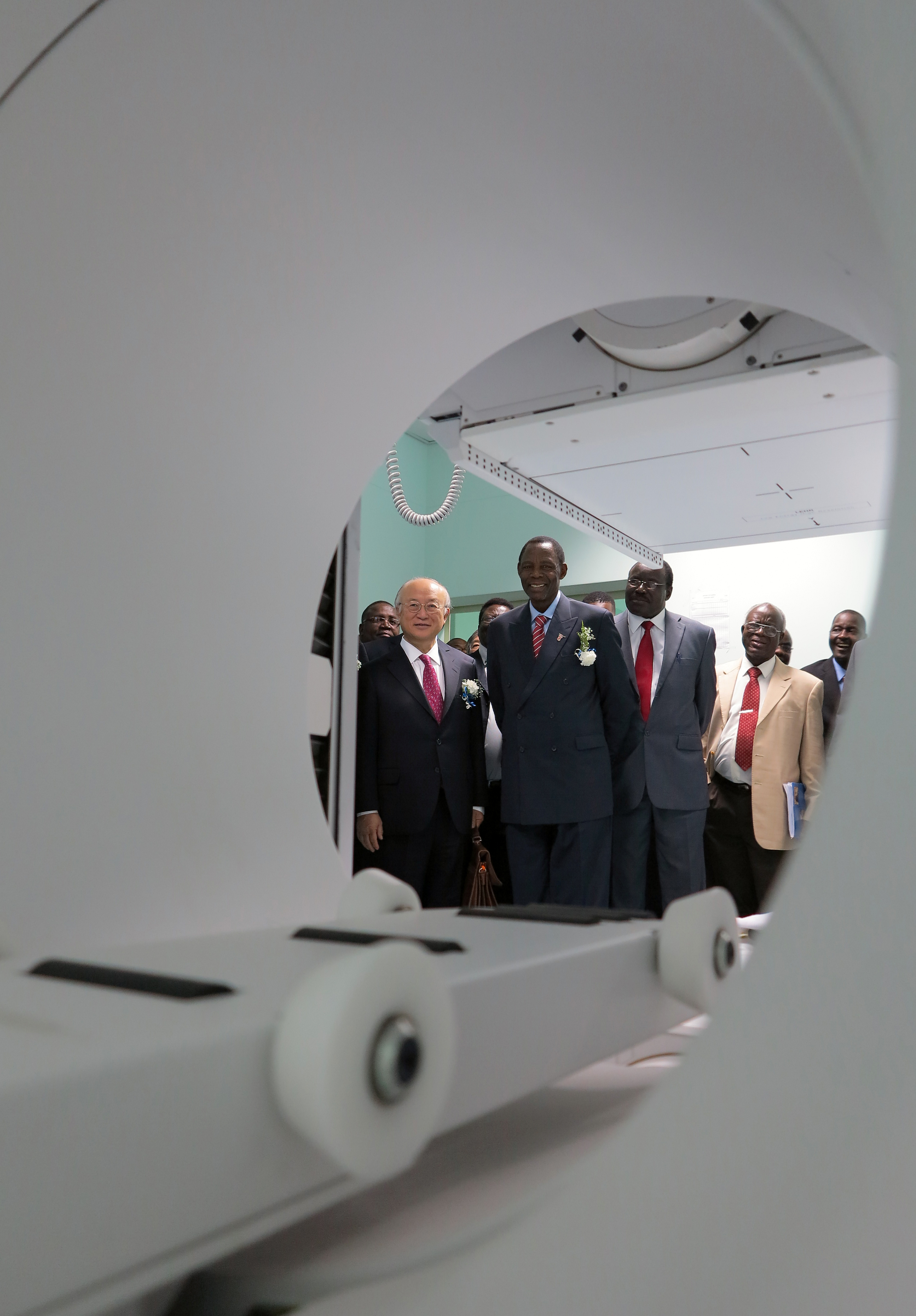 IAEA Director General Yukiya Amano and Dr Richard Kamwi, Minister for Health and Social Services, at the new Nuclear Medicine Unit at Oshakati State Hospital, Namibia. 12 December 2013 Photo Credit: Conleth Brady / IAEA